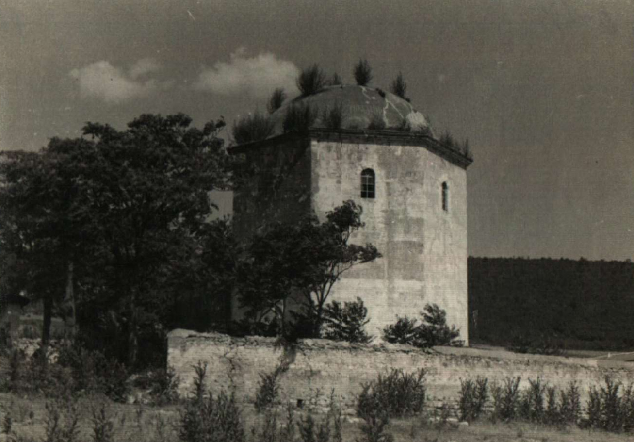 Ak Yazili Baba tyurbe, Obrochishte, Bulgaria